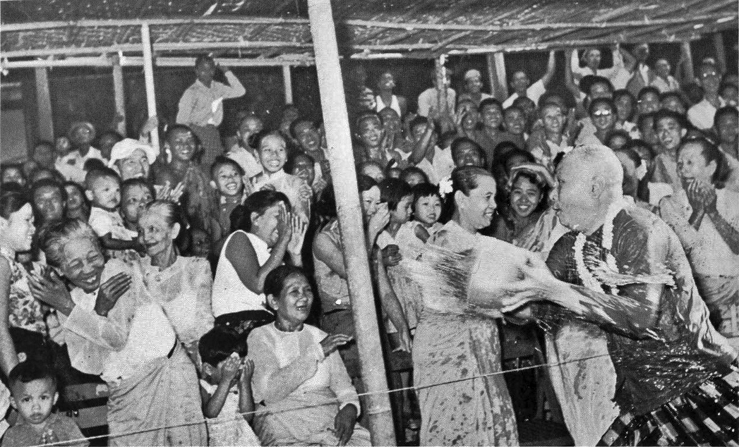 U Nu, as Premier, takin part in the Burmese New Year's Water Festival in April 1960.